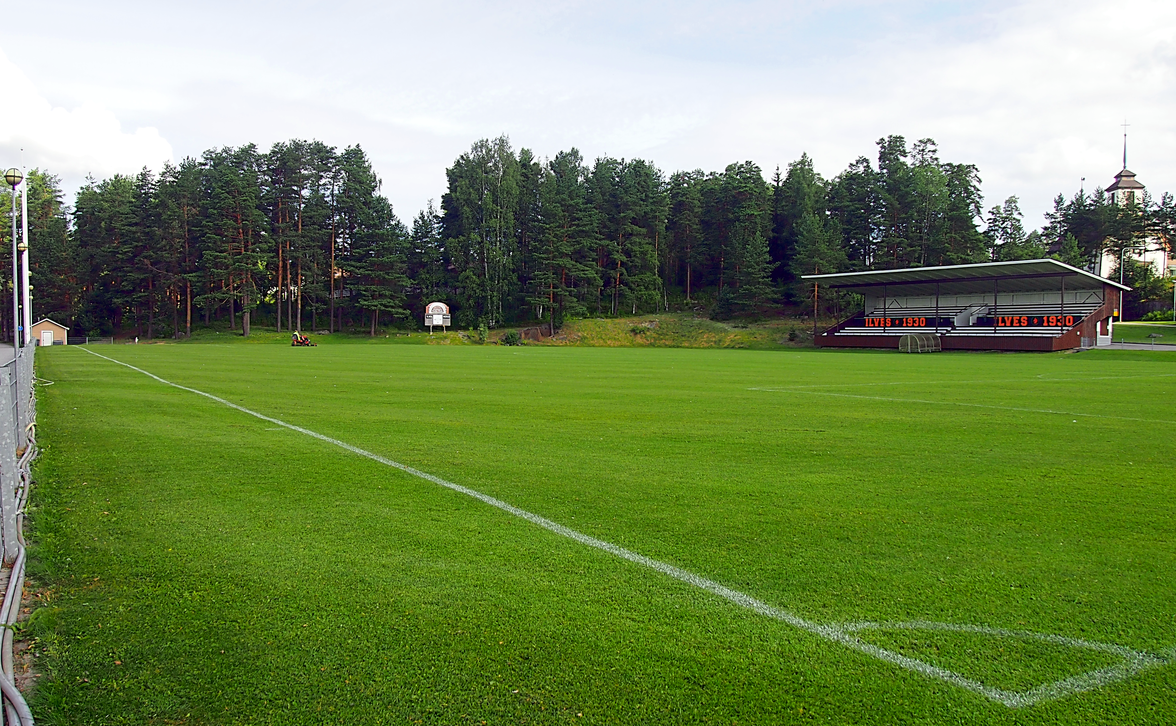 The Jukka Virtanen Soccer Field in Jämsänkoski, Finland, originally the Jämsänkoski soccer field, renamed in 2016. The history of the field dates back to 1930. The field is located in the immediate vicinity of the town center of Jämsänkoski.